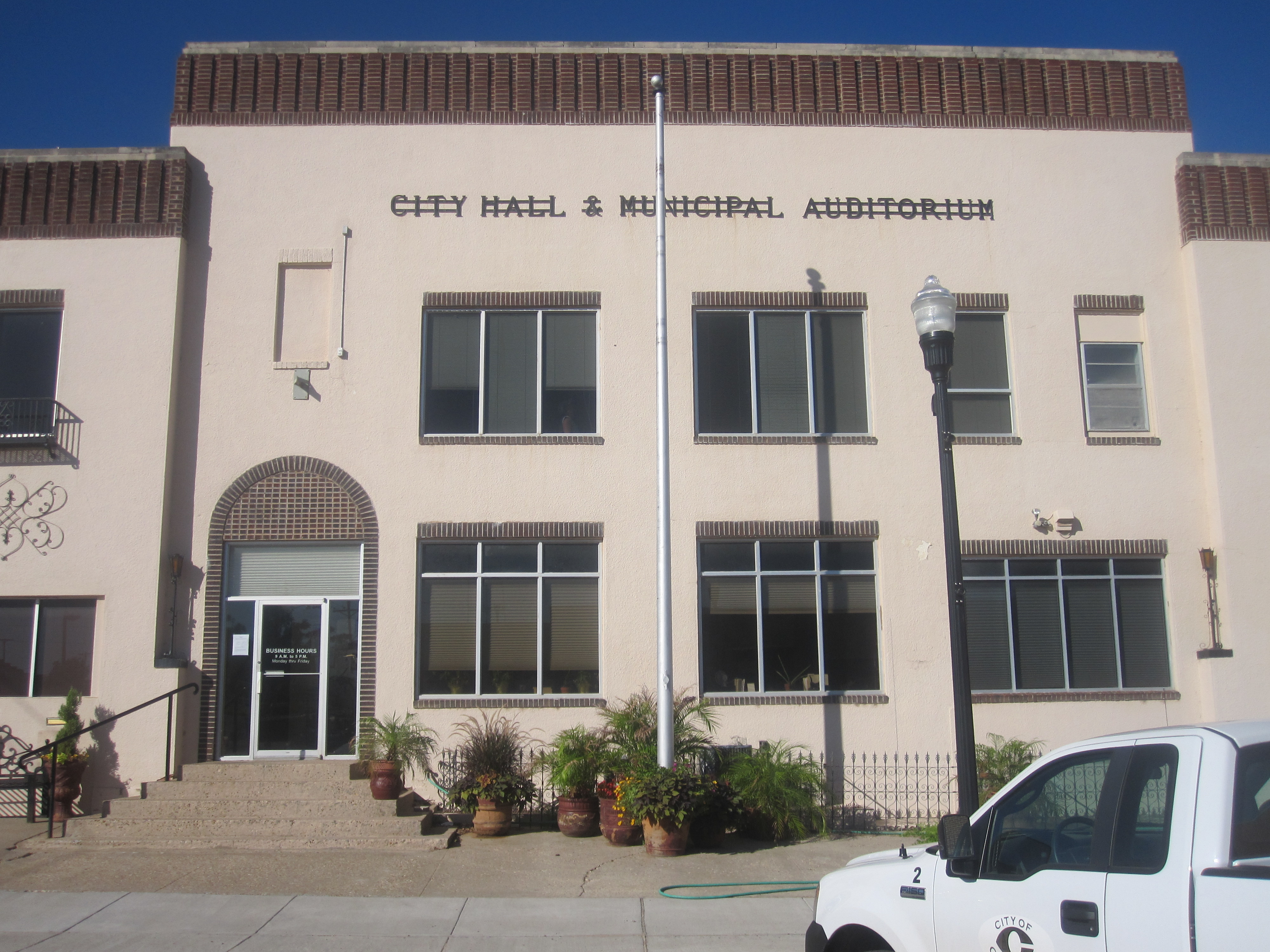 I took photo with Canon camera in Canadian, TX.